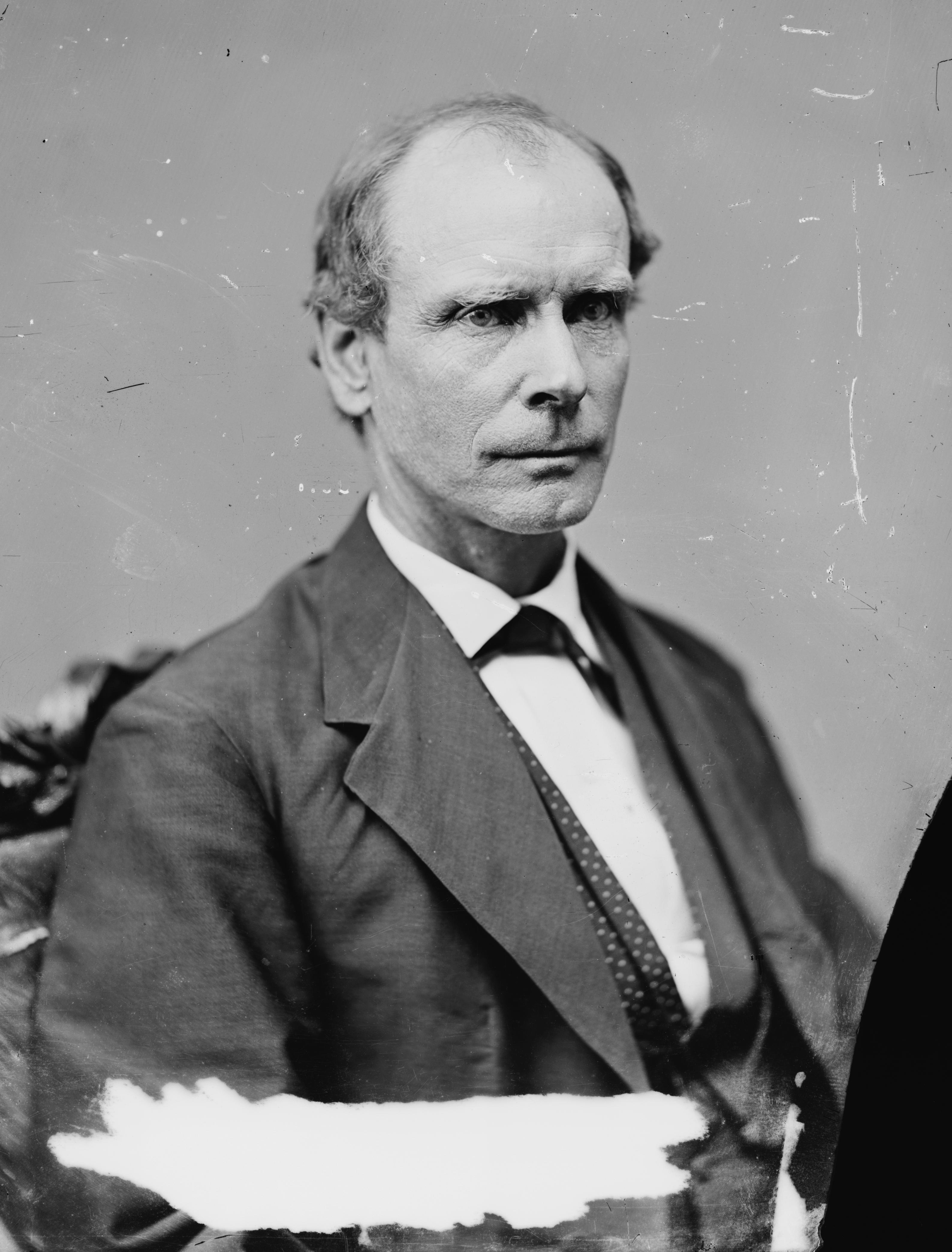 Amos T. Akerman. Library of Congress description: "Ackerman, Hon. Ames, Atty. Gen."